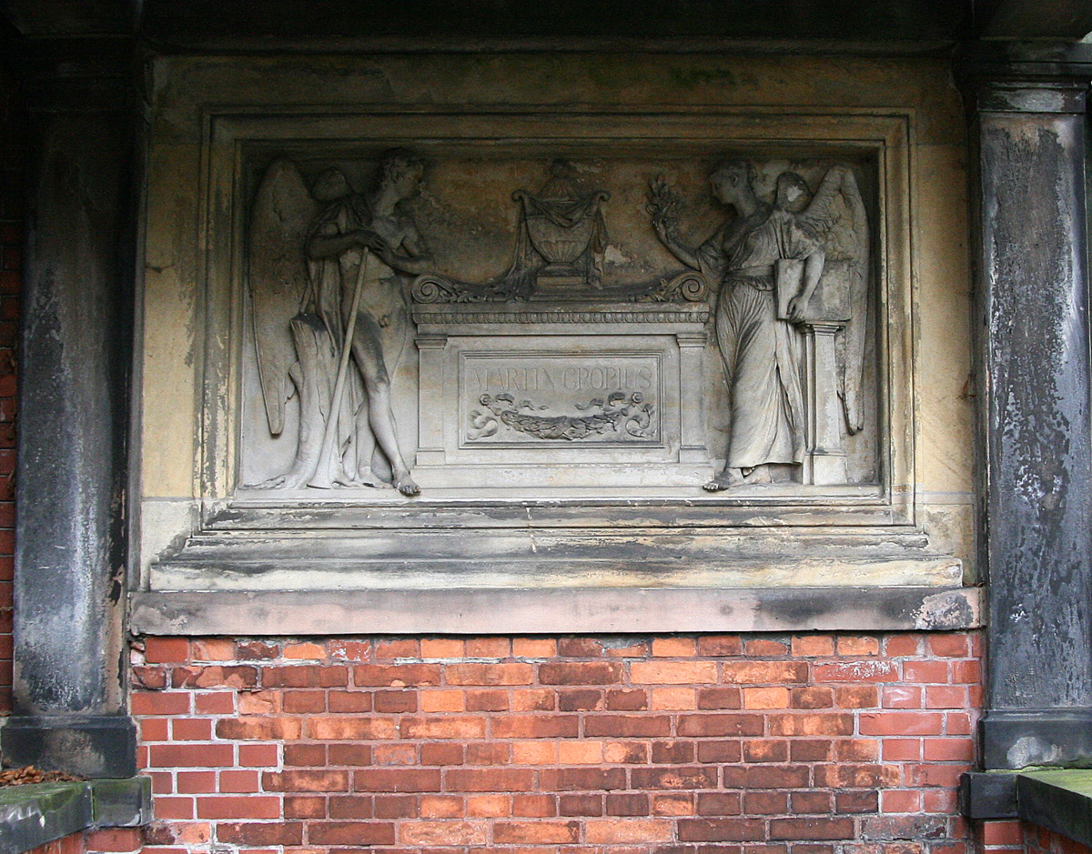 Tomb of W Gropius in Berlin